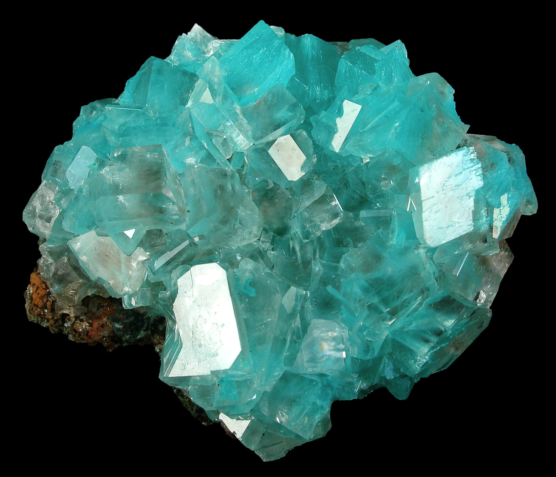 Aurichalcite, Calcite Locality: Ojuela Mine, Mapimí, Municipio de Mapimí, Durango, Mexico (Locality at ) Size: miniature, 4.7 x 4.1 x 2.3 cm Aurichalcite in Calcite Rhombs of intergrown, glassy and translucent, calcite, to .8 cm across totally cover a limonite matrix. The rhombs are infused with fibrous aurichalcite, resulting in a lovely teal color. VERY GLASSY lustre!